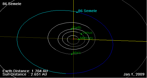 86 Semele orbit, and his position on 01 Jan 2009 (NASA Orbit Viewer applet)